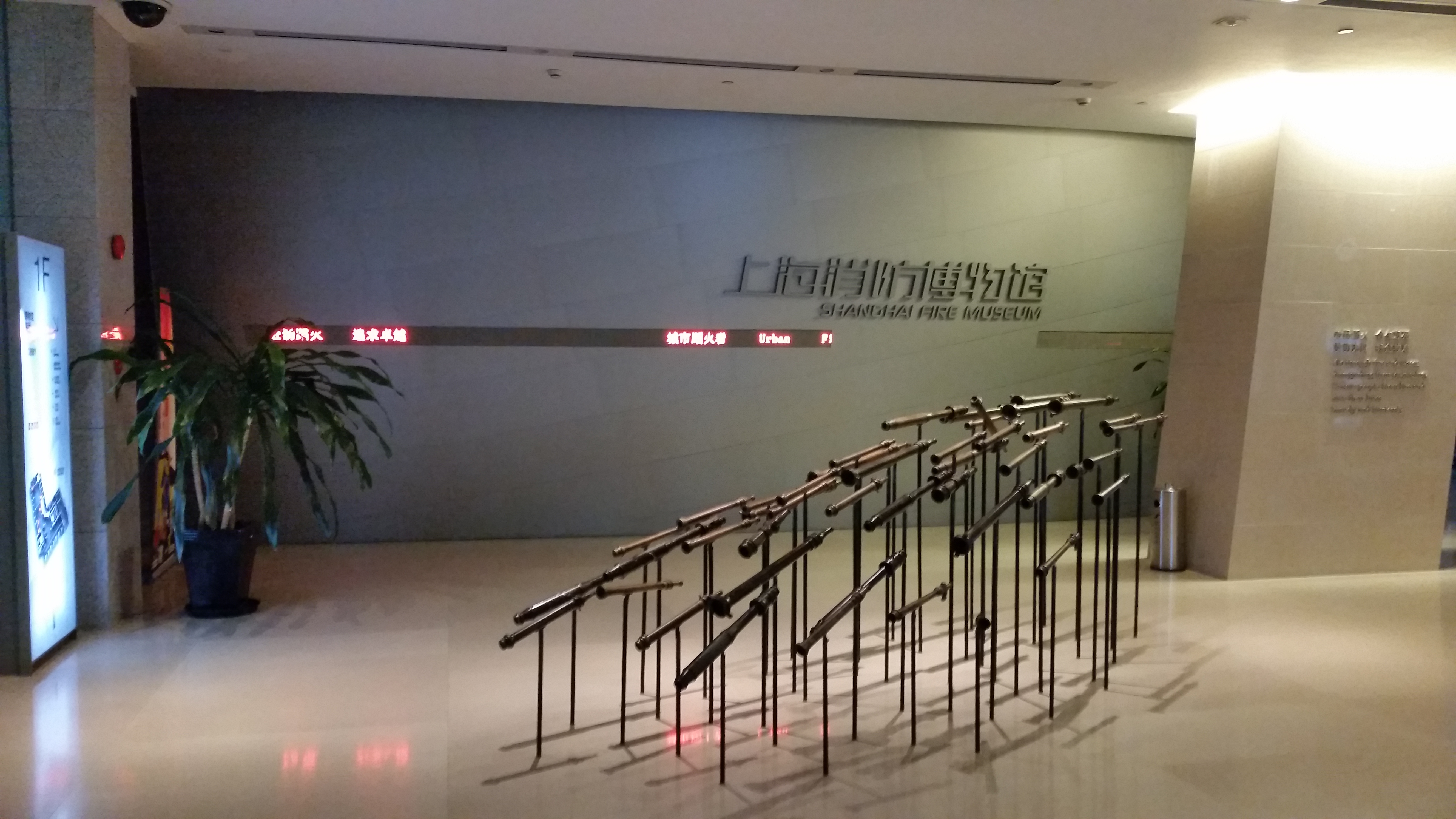 Shanghai Fire Museum